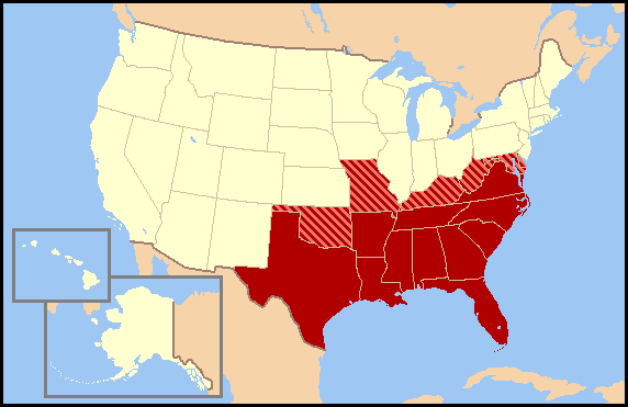 Wikipedia:WikiProject U.S. regions/mnote